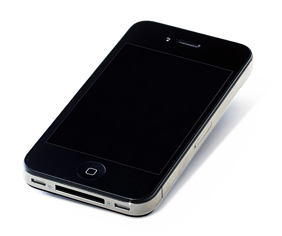 Iphone 4